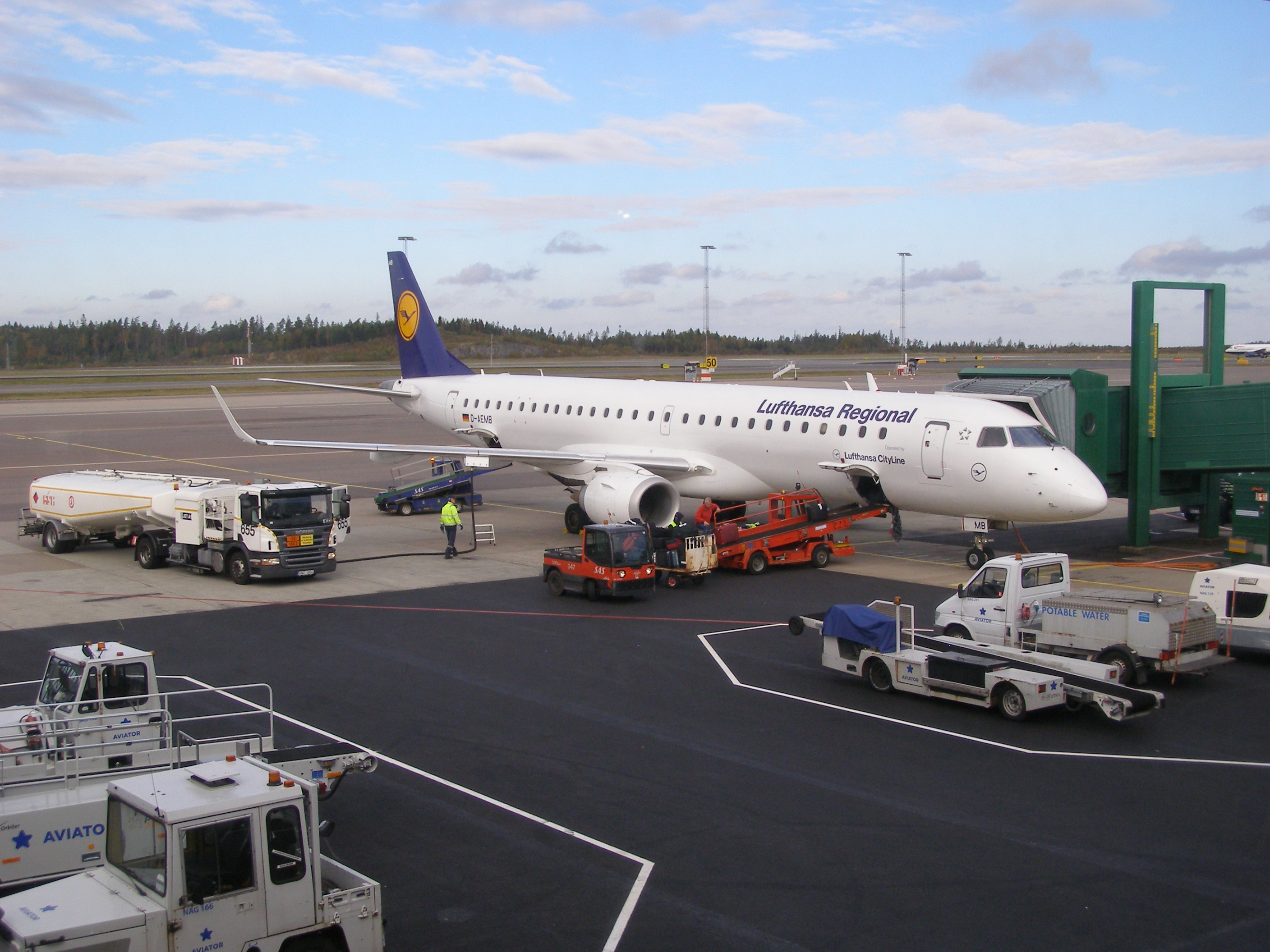 Göteborg-Landvetter Airport - Lufthansa Regional Embraer ERJ-195 D-AEMB